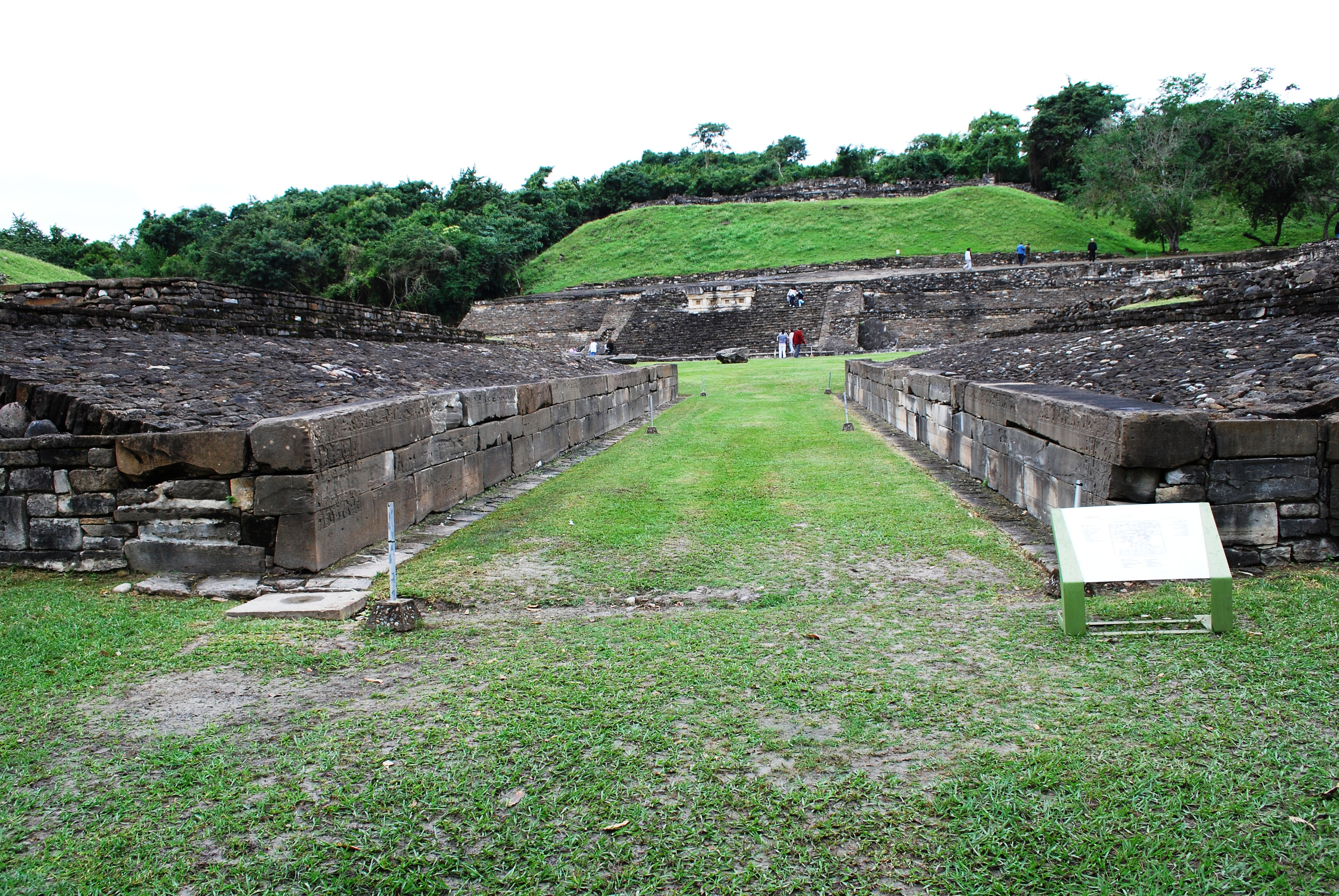 North Ball Court looking east at Tajin, Veracruz, Mexico